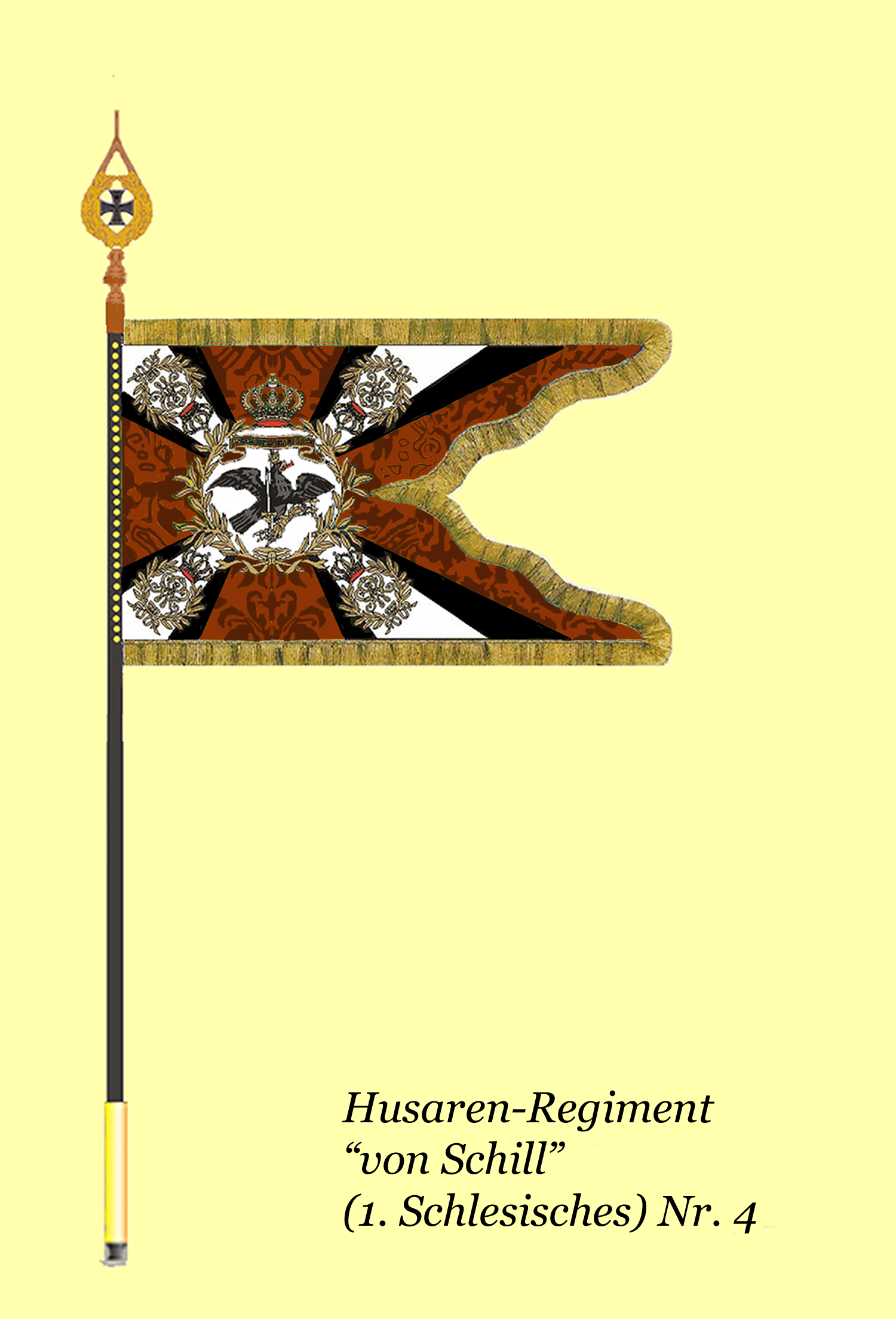 Colors of the royal prussian 4th Regiment of Hussars